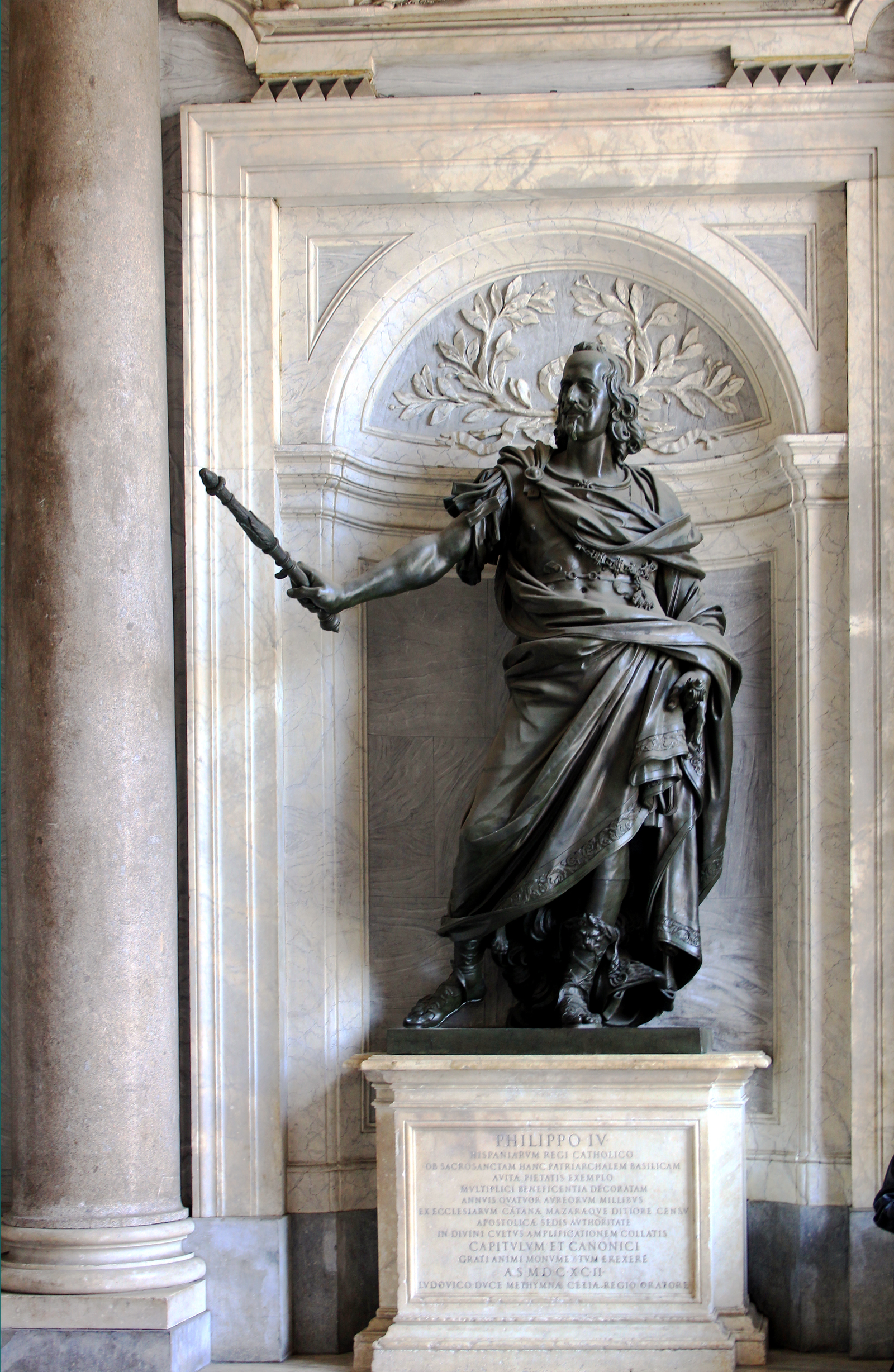 Statue of Philip IV of Spain in Basilica di Santa Maria Maggiore, Rome, Italy